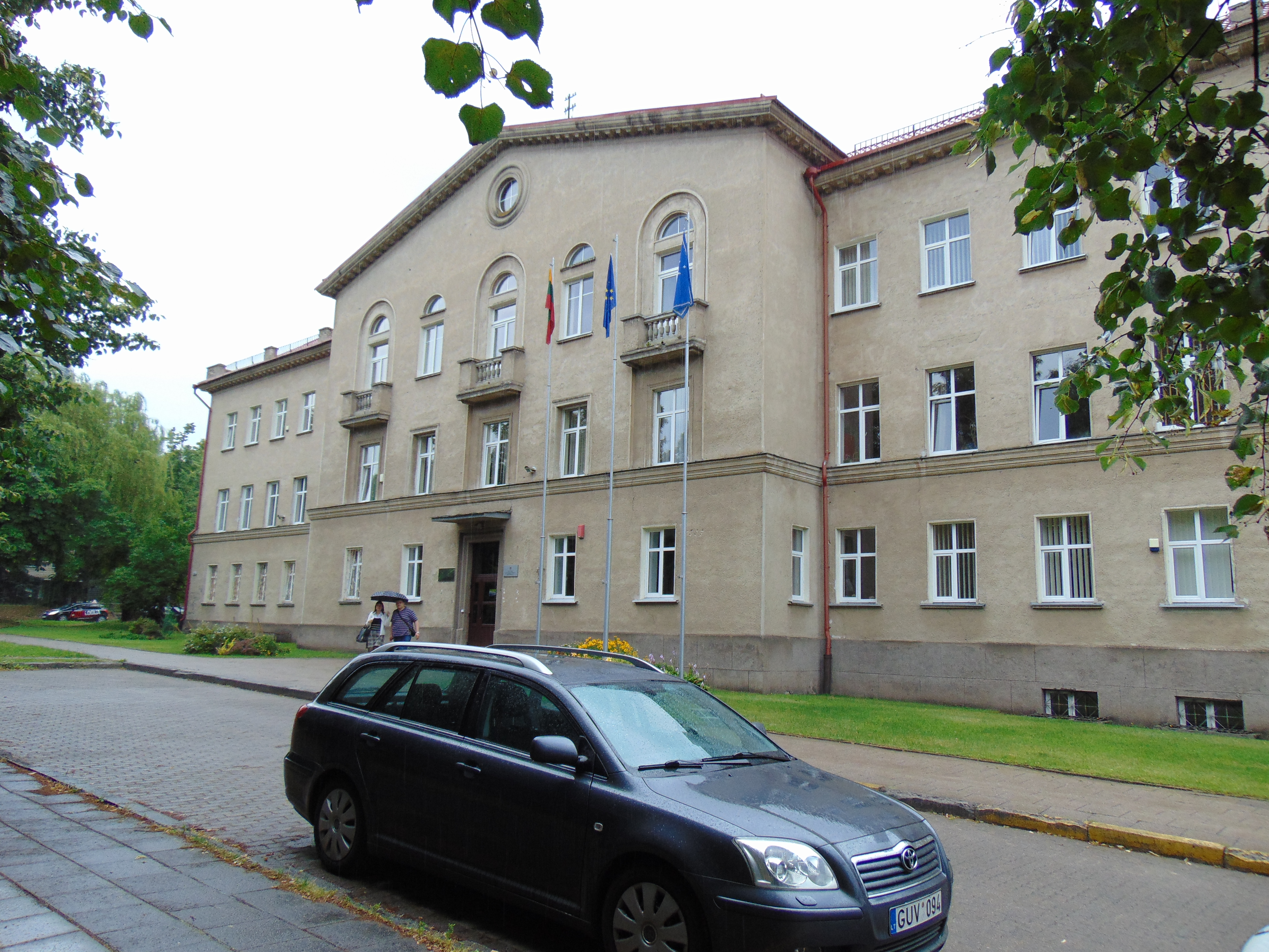 Lithuanian Culture Research Institute